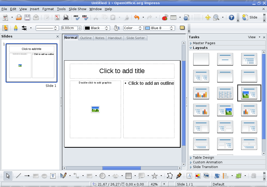 Impress 3.0 on GNU/Linux